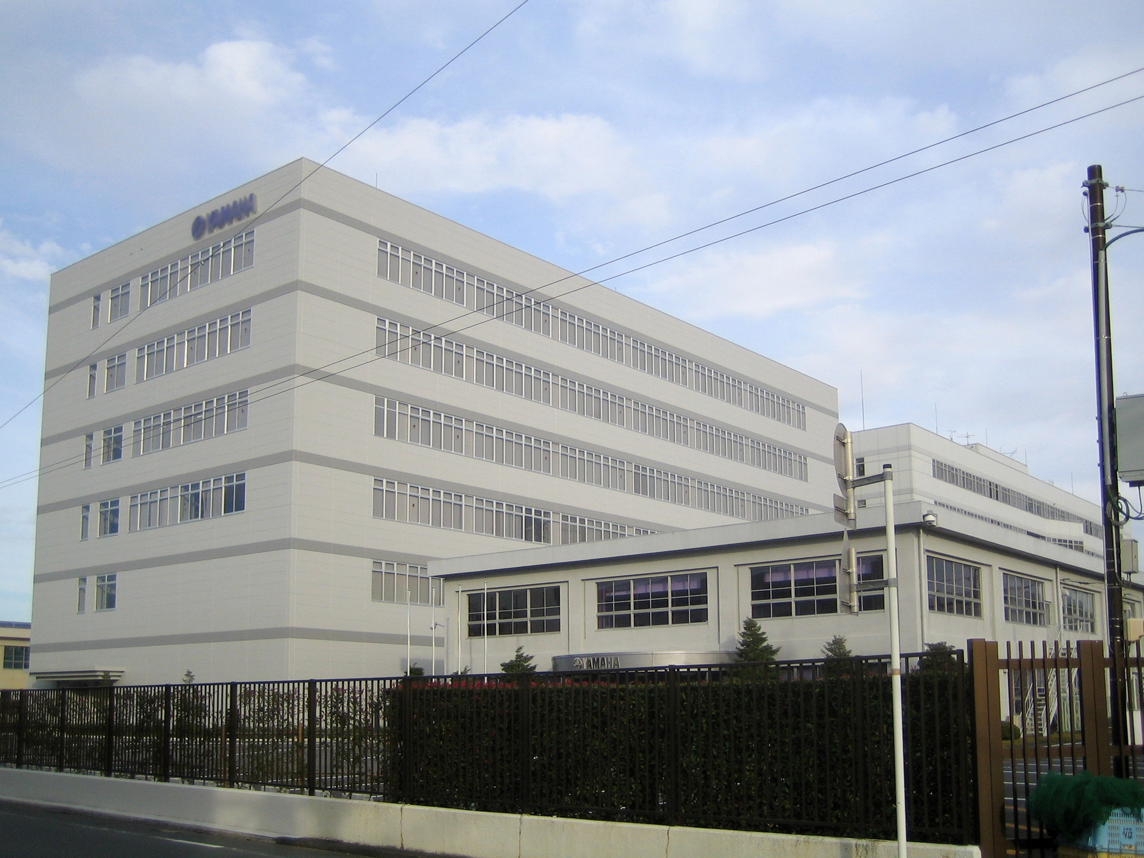 Yamaha Corp. (ヤマハ), in Hamamatsu, Shizuoka, Japan